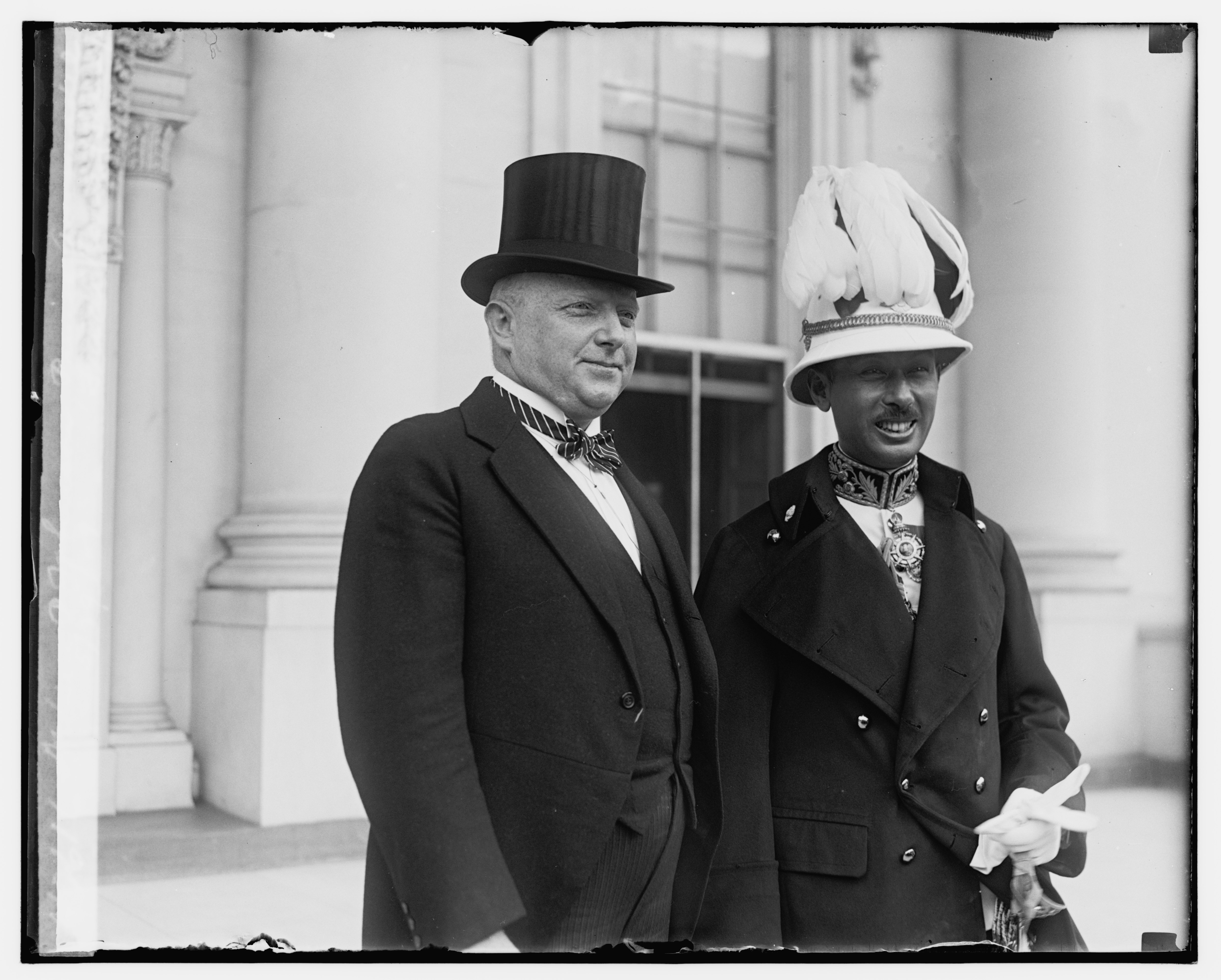 Title: Nelson P. Johnson, Prince Amonadel Fridi Kara (Siam), 5/29/29 Abstract/medium: 1 negative : glass ; 4 x 5 in. or smaller